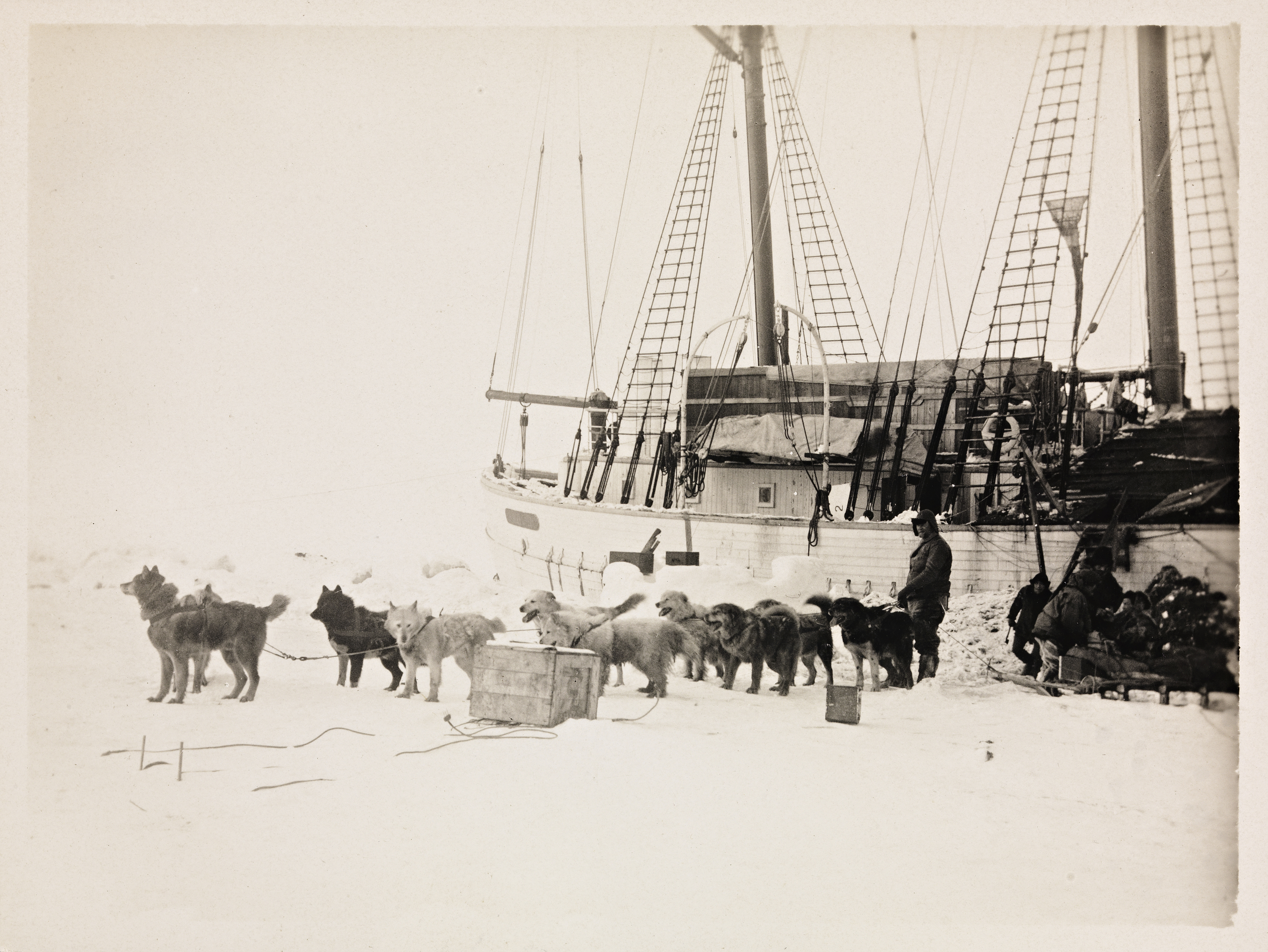 Dato / Date: ca. 1918-1925 Sted / Place: ukjent / unknown Fotograf / Photographer: ukjent / unknown Digital kopi av original / Digital copy of original: sv/hv papirpositiv Eier / Owner Institution: Nasjonalbiblioteket / National Library of Norway Lenke / Link: Bildesignatur / Image Number: bldsa_NPRA2931